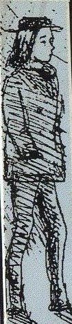 Drawing of Arthur Rimbaud by Paul Verlaine